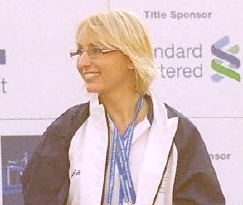 Mumbai Marathon 2008 - Brand Ambassadors: Gabriela Szabo.